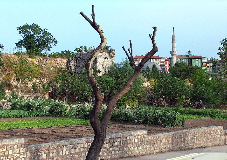 Terrace along the wall -- Istanbul, Turkey. Hundreds-year-old technique is used not far away from modern buildings: In many places along the wall of Constantinople, the ancient technique of terrace agriculture is used for raising different crops.